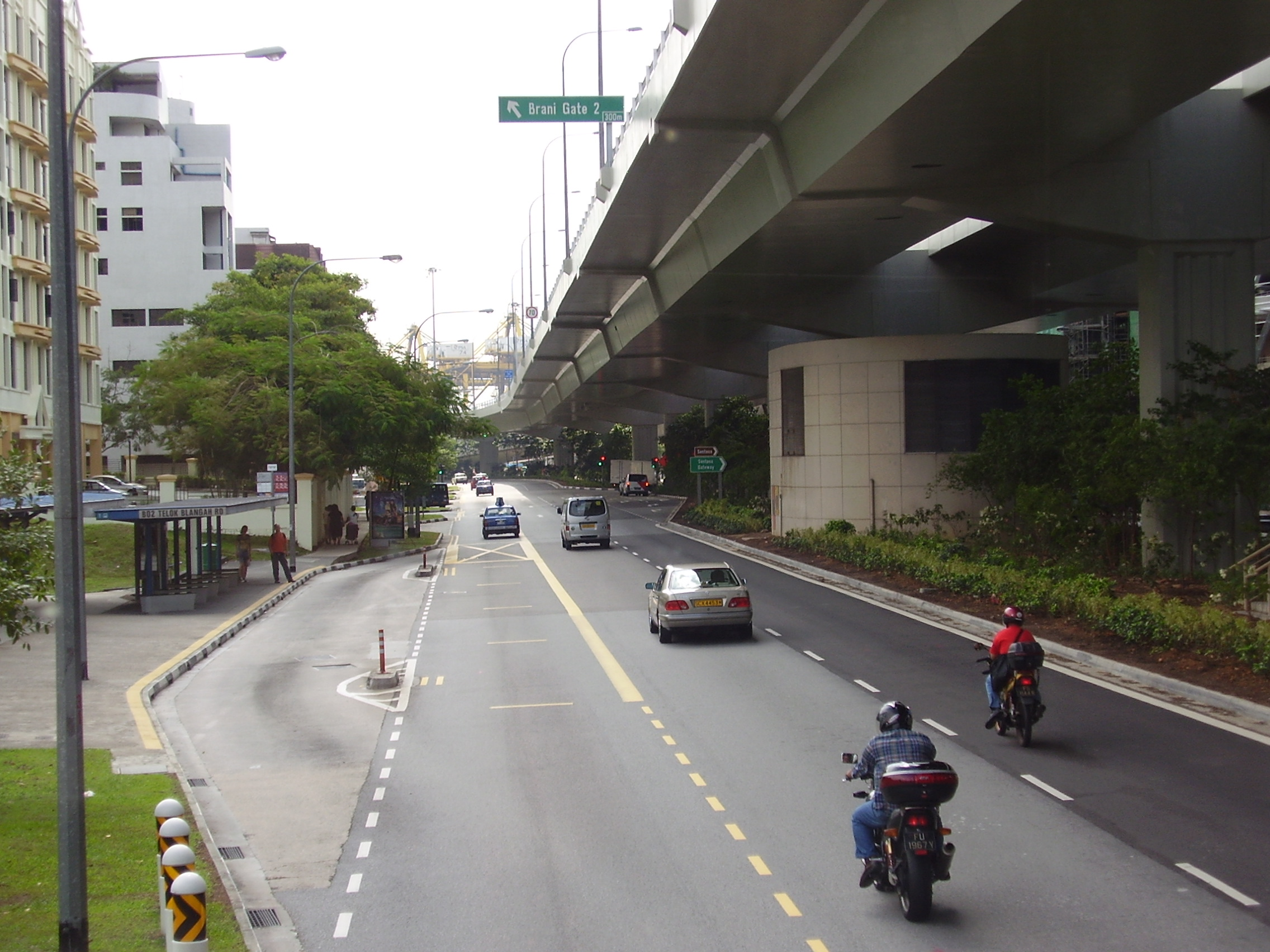 Telok Blangah Road towards Keppel Road, before junction with Sentosa Gateway.